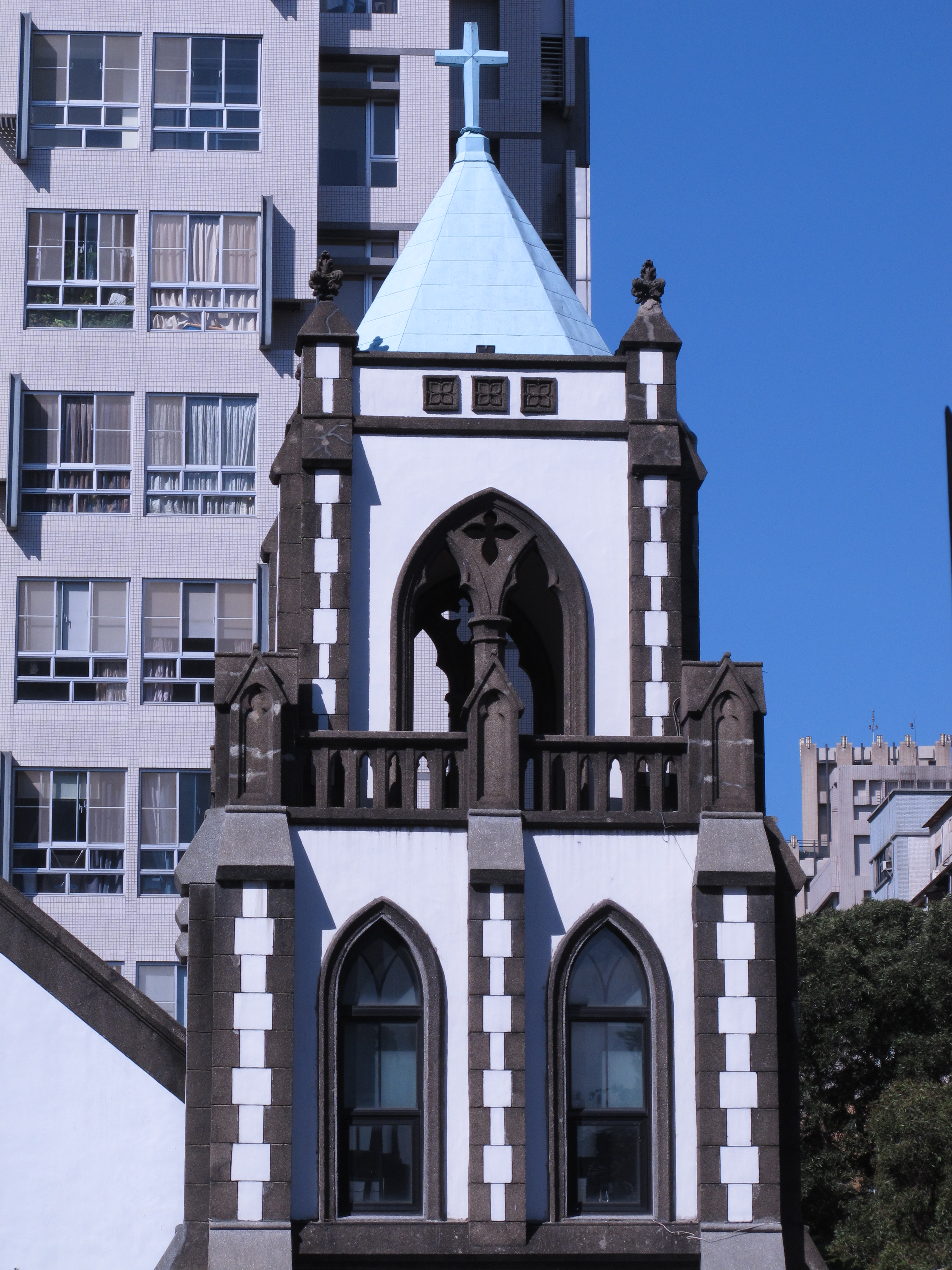 Taipei Chung-Shan Presbyterian Church(original Taipei Sei-Ko-Kai Taishōchō Church, in the Province of Anglican Episcopal Church in Japan).